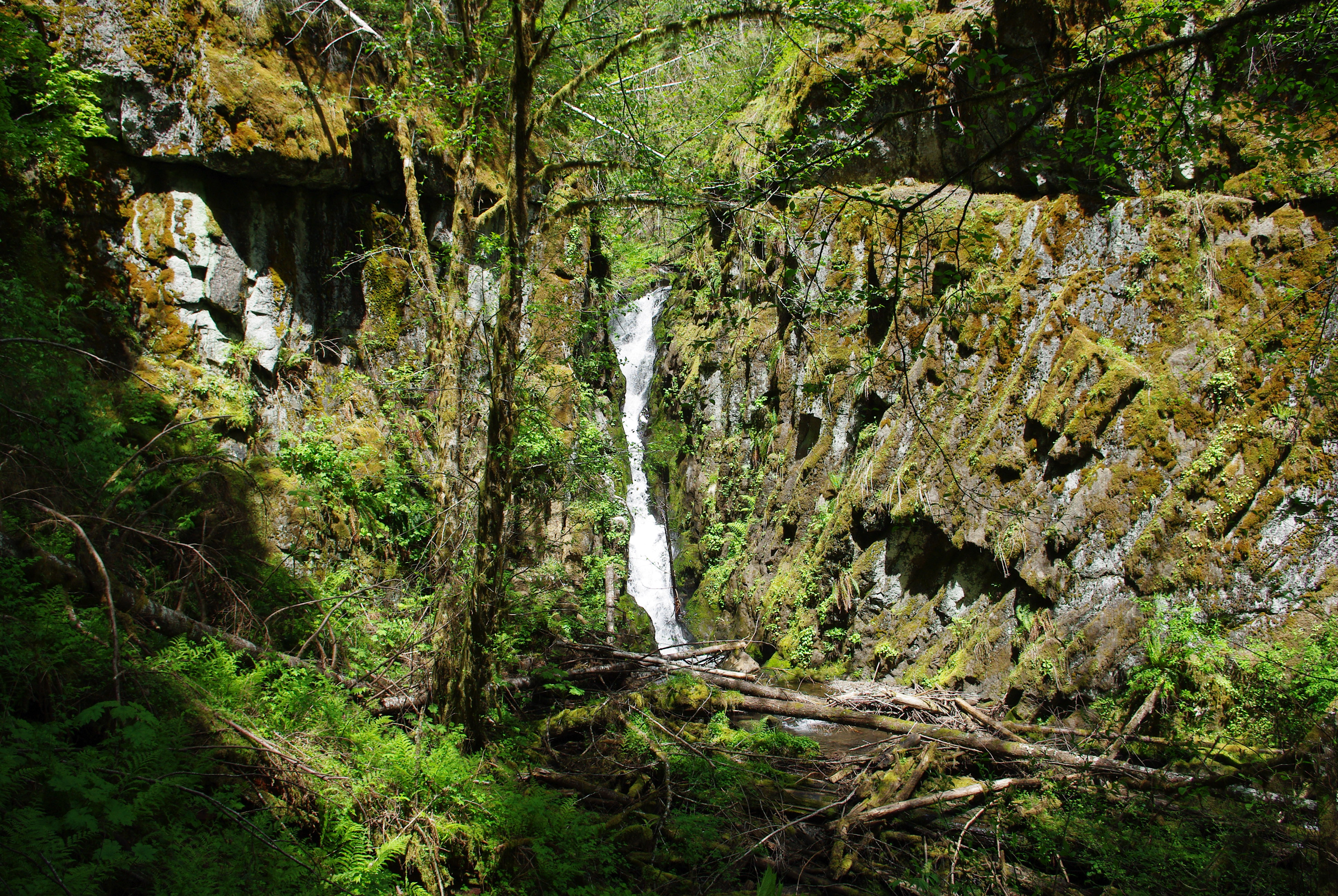 Wide shot of Ki-a-Kuts Falls.